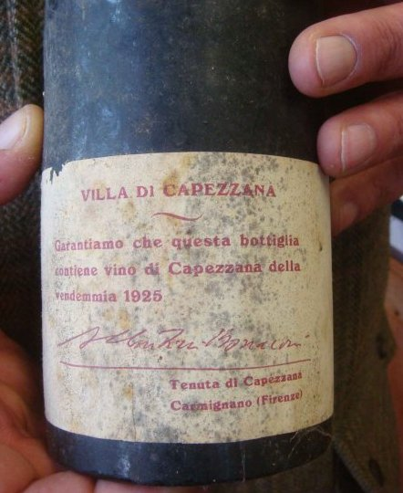 Label of a bottle of Carmignano wine, from Villa di Capezzana, 1925